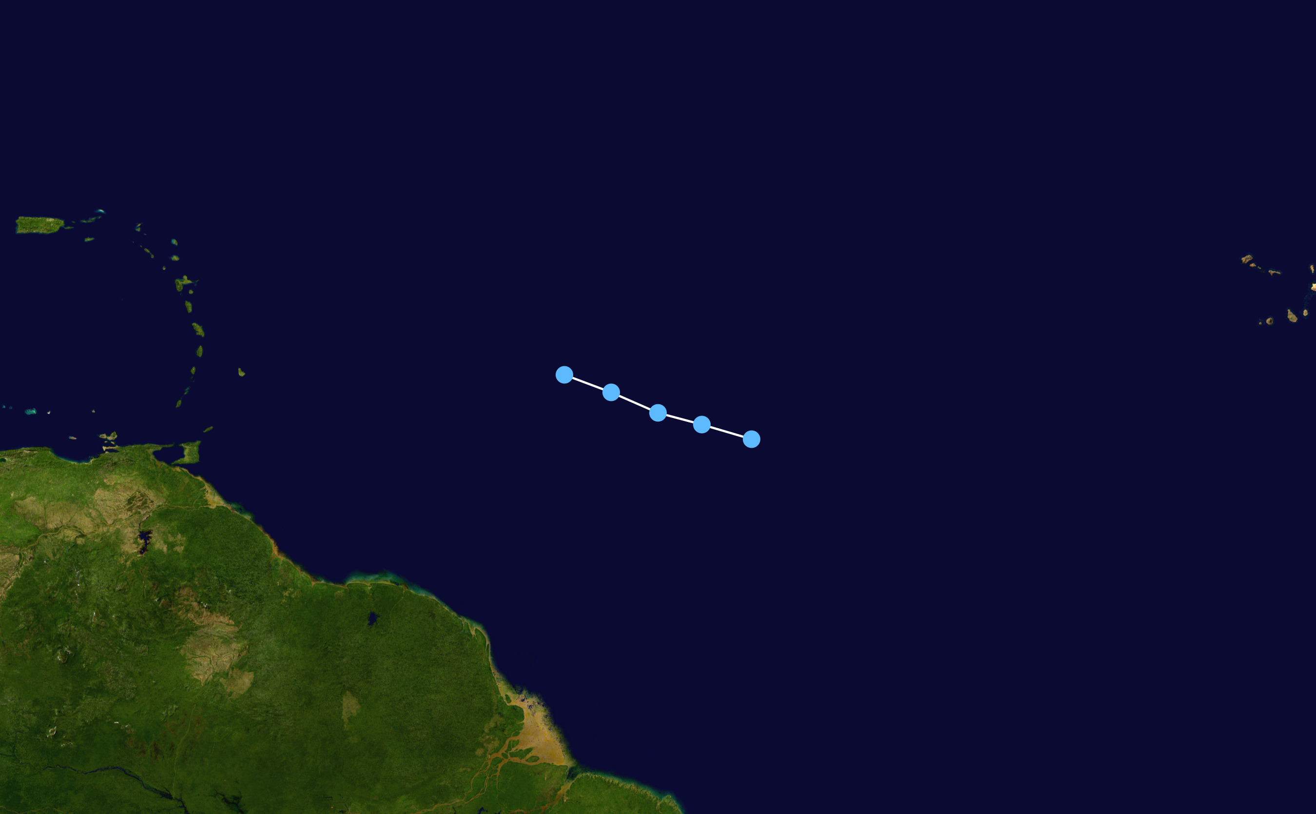 Track map of Tropical Depression Two of the 2001 Atlantic hurricane season. The points show the location of the storm at 6-hour intervals. The colour represents the storm's maximum sustained wind speeds as classified in the Saffir–Simpson scale (see below), and the shape of the data points represent the nature of the storm, according to the legend below. Saffir–Simpson scale Tropical depression≤38 mph≤62 km/h Category 3111–129 mph178–208 km/h Tropical storm39–73 mph63–118 km/h Category 4130–156 mph209–251 km/h Category 174–95 mph119–153 km/h Category 5≥157 mph≥252 km/h Category 296–110 mph154–177 km/h Unknown Storm type Tropical cyclone Subtropical cyclone Extratropical cyclone / Remnant low / Tropical disturbance / Monsoon depression